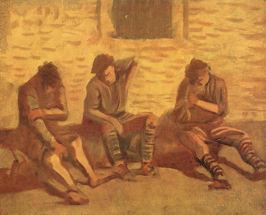 Soldiers Hunting for Lice